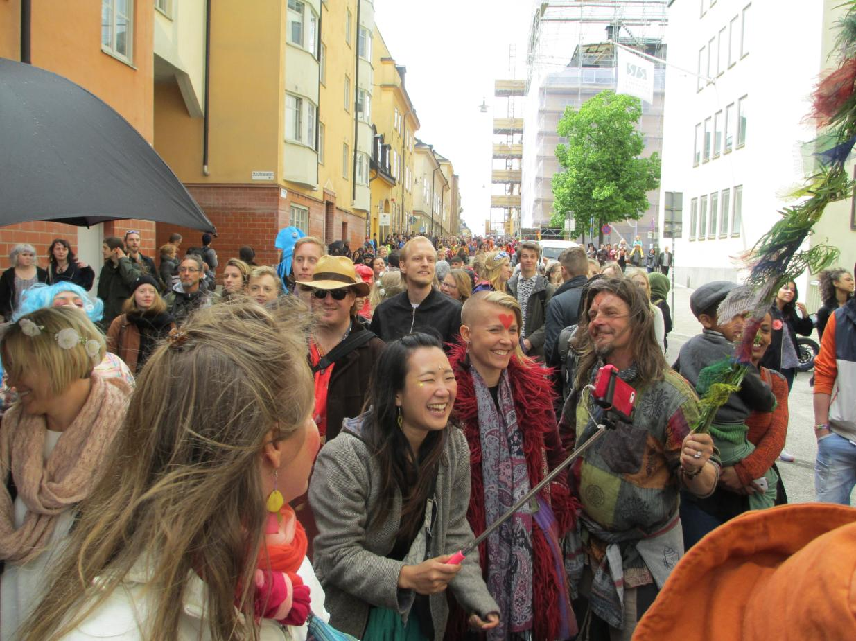 Peace and Love Rally parade of Stockholm Fred- och KärlekstågetPlace: S:t Paulsgatan, Stockholm, Sweden